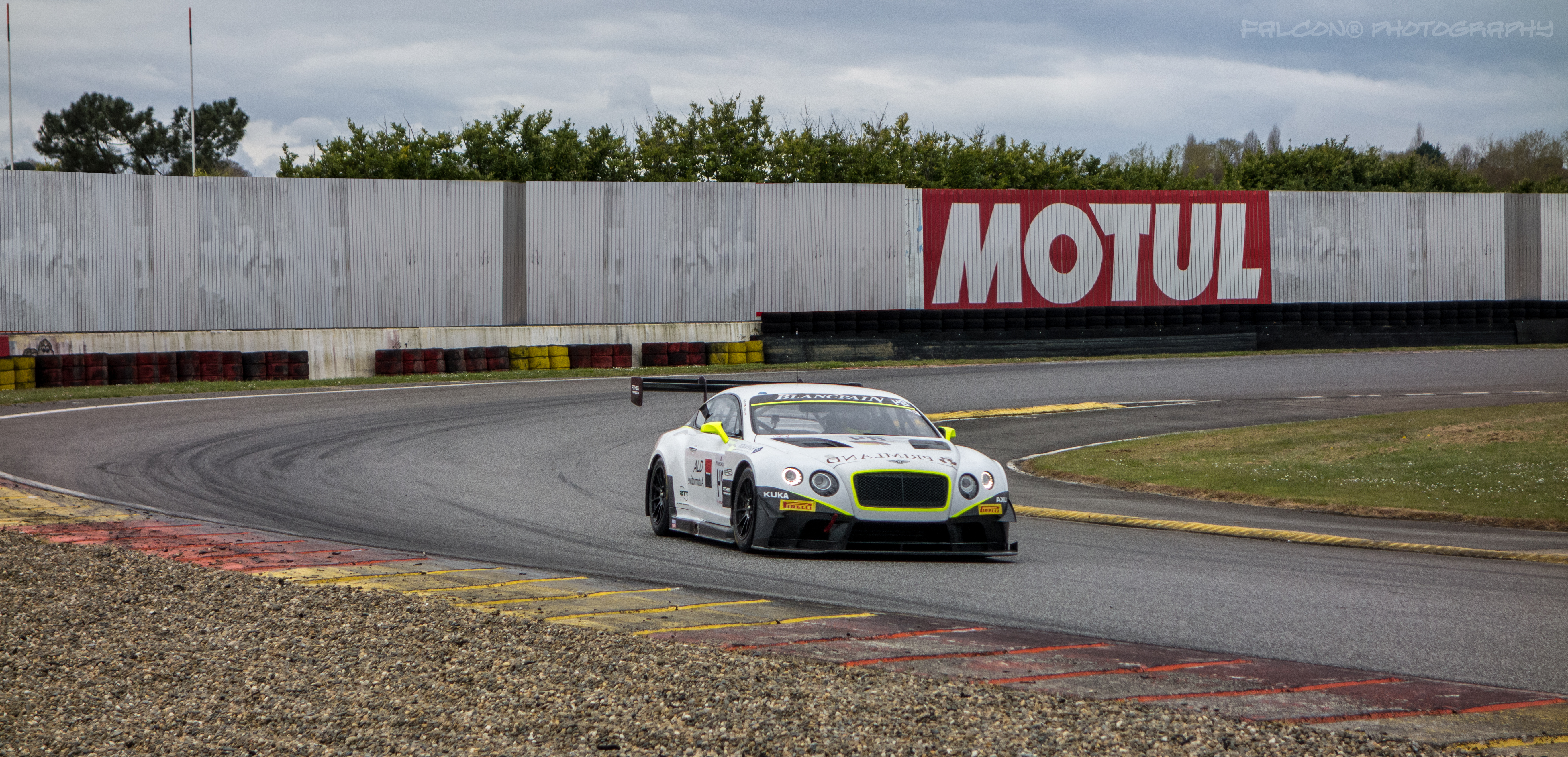 Bentley Team HTP 84 Vincent Abril (FRA) & Maximilian Buhk (GER) Best time Q3 1:25.088 Nogaro Coupes de Pâques : 4th